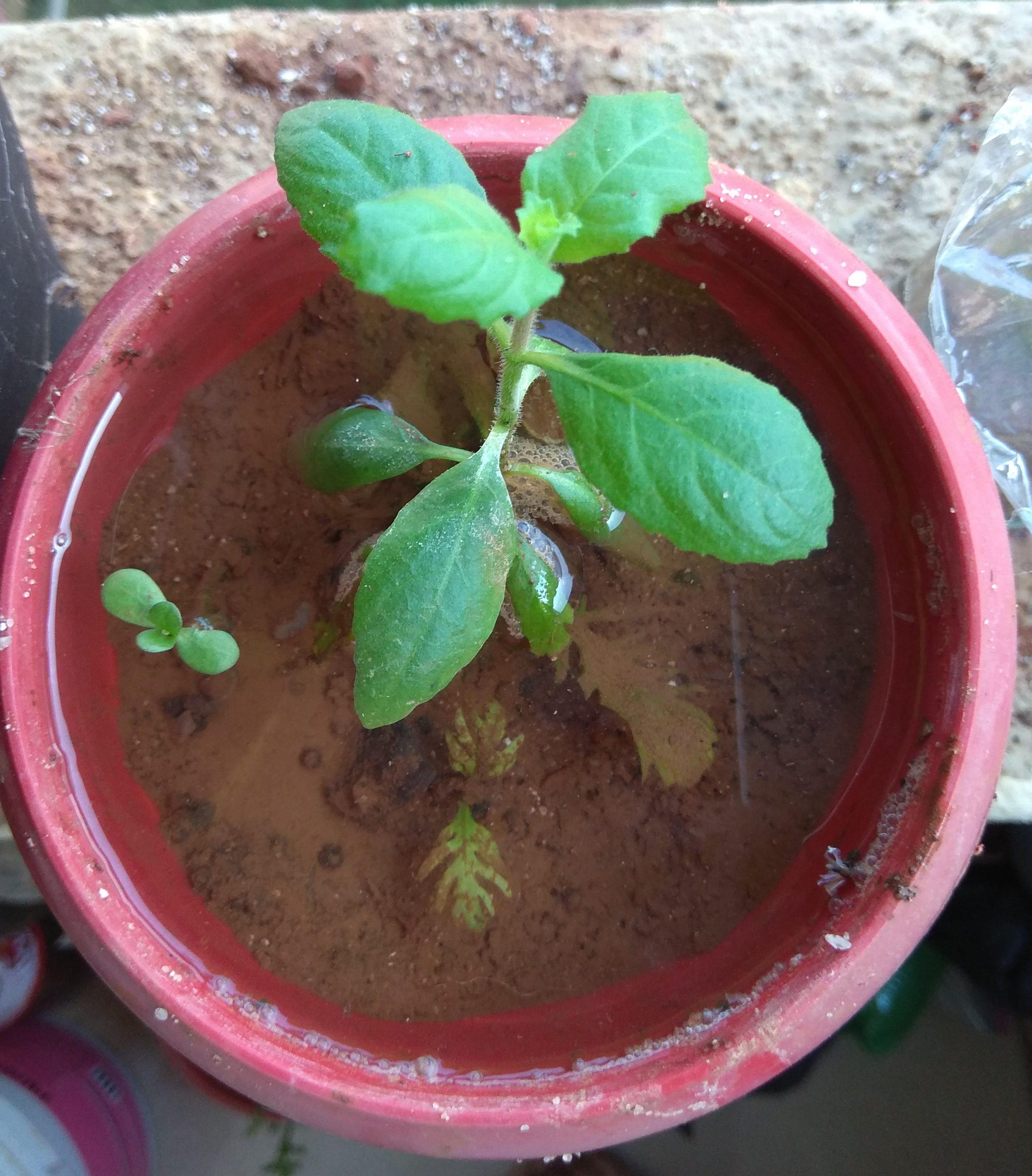 Water wisteria or Hydrophila diffiformis shows Hetrophylly which is occurance of two different leaf morphology in a same plant. A special case of plasticity is represented by heterophylly, the ability of semi-aquatic plants to produce different types of leaves below and above water. Submerged leaves are thin and lack both a cuticle and stomata, whereas aerial leaves are thicker, cutinized and bear stomata.